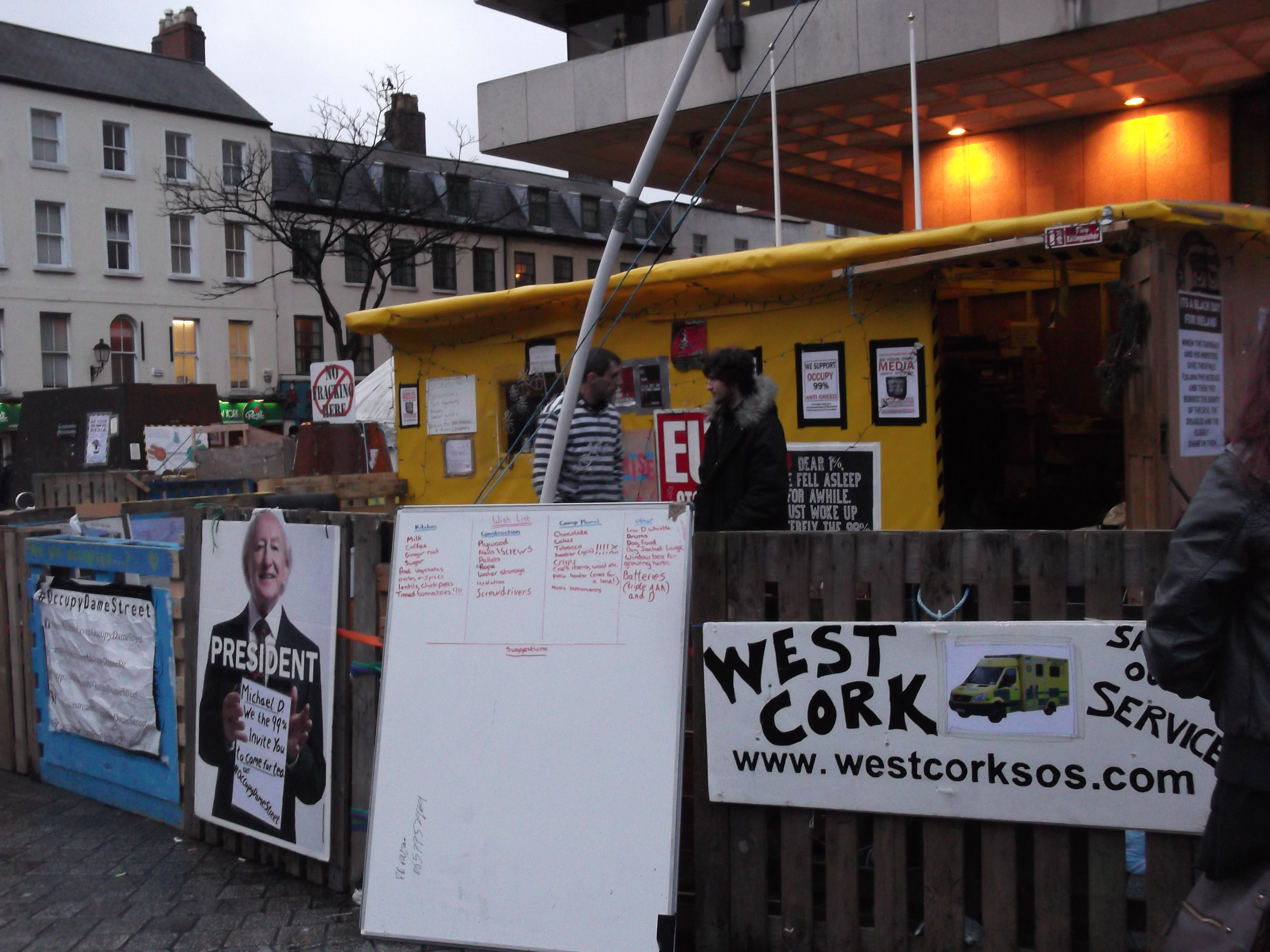 Occupiers Camp on Dame Street, Dublin, 19th of December 2011